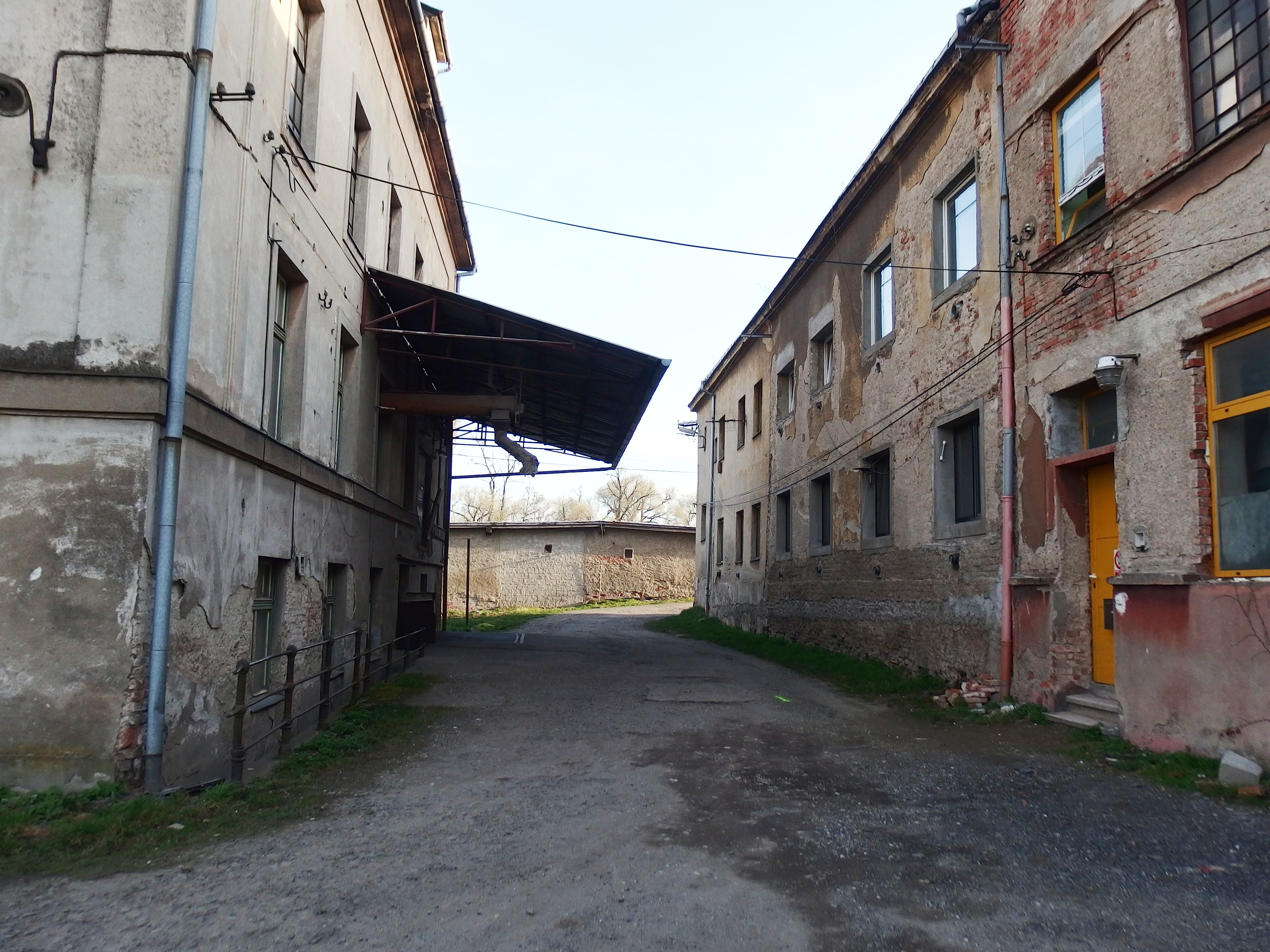 Lobodice, Přerov District, Czech Republic, part Cvrčov.